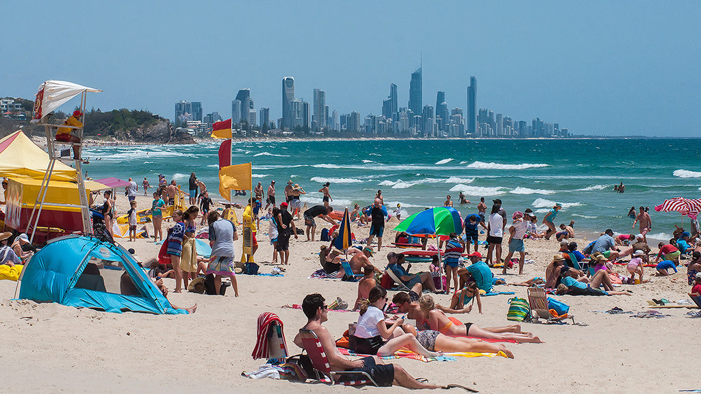 Burleigh Heads Beach during summer